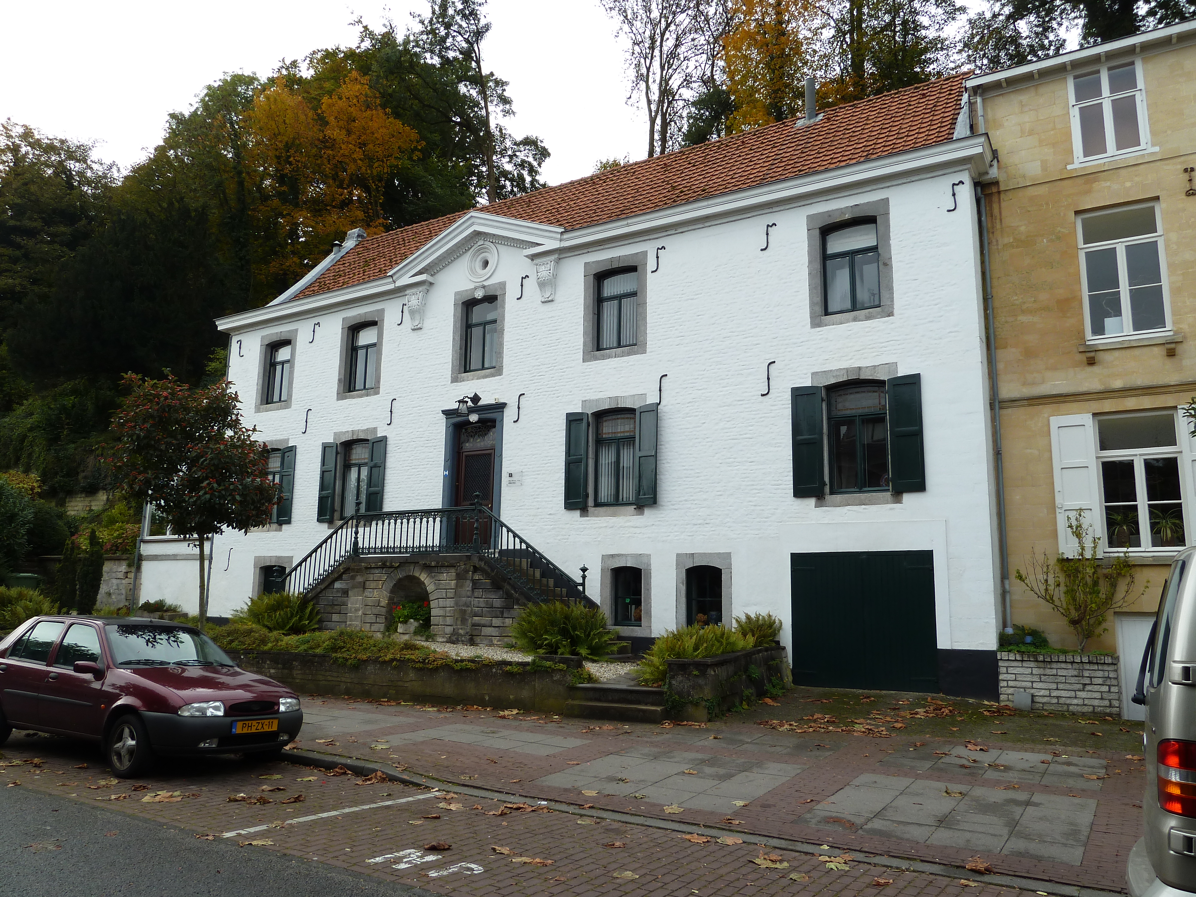 Neerhem 8, Valkenburg, Limburg, the Netherlands